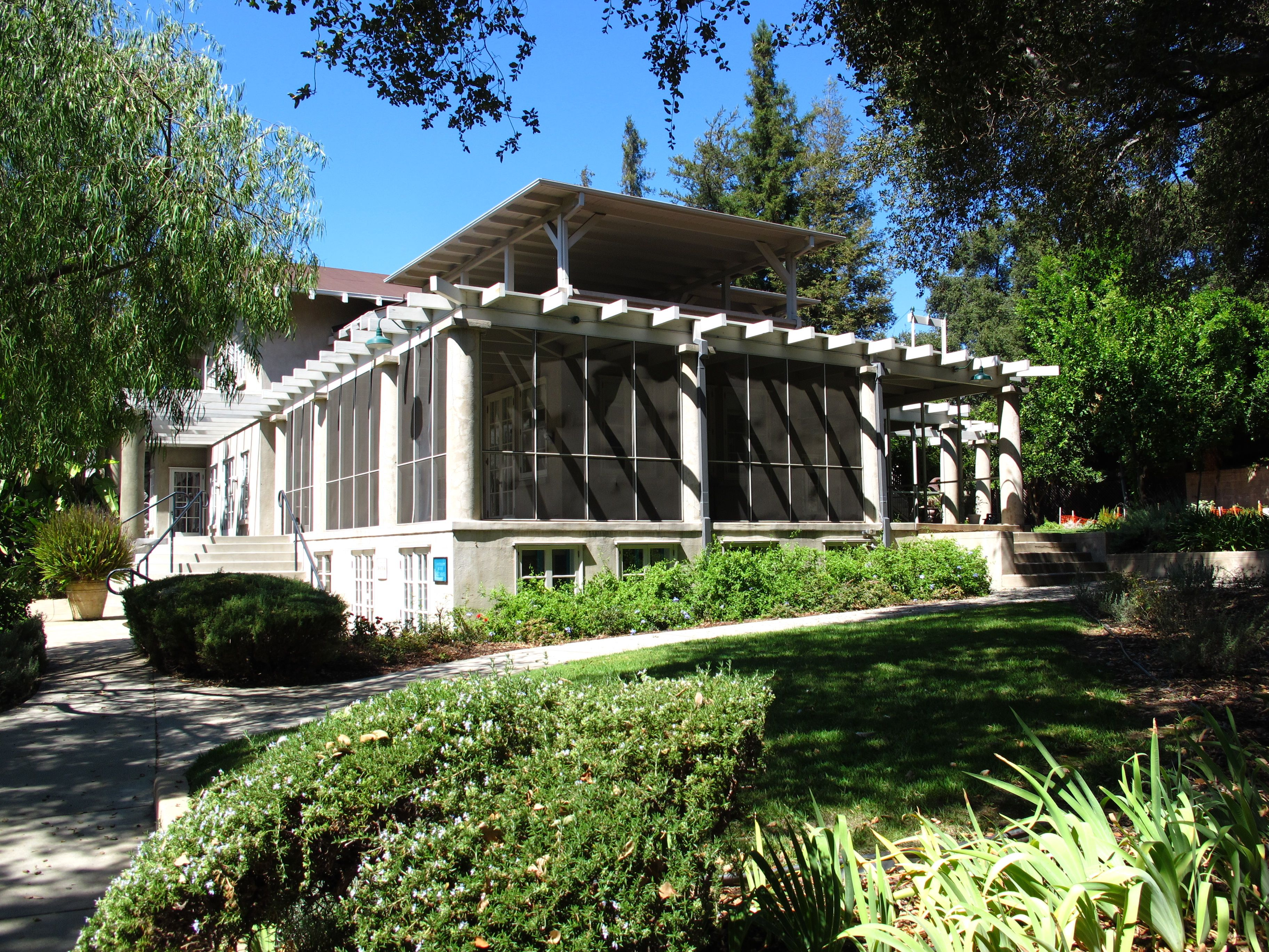 Screened back porch of the Lanterman House, 4420 Encinas Drive, La Cañada Flintridge, California.